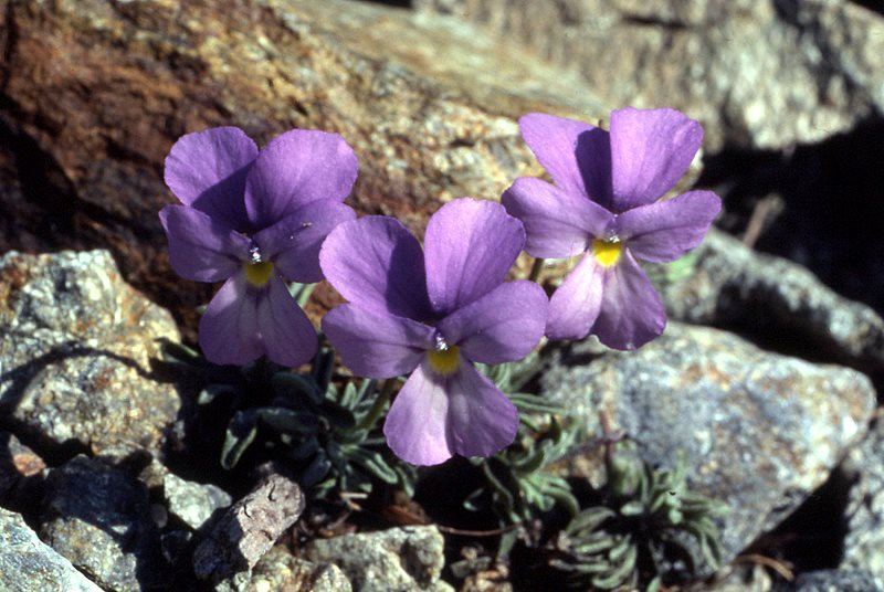 Viola valderia - Flower